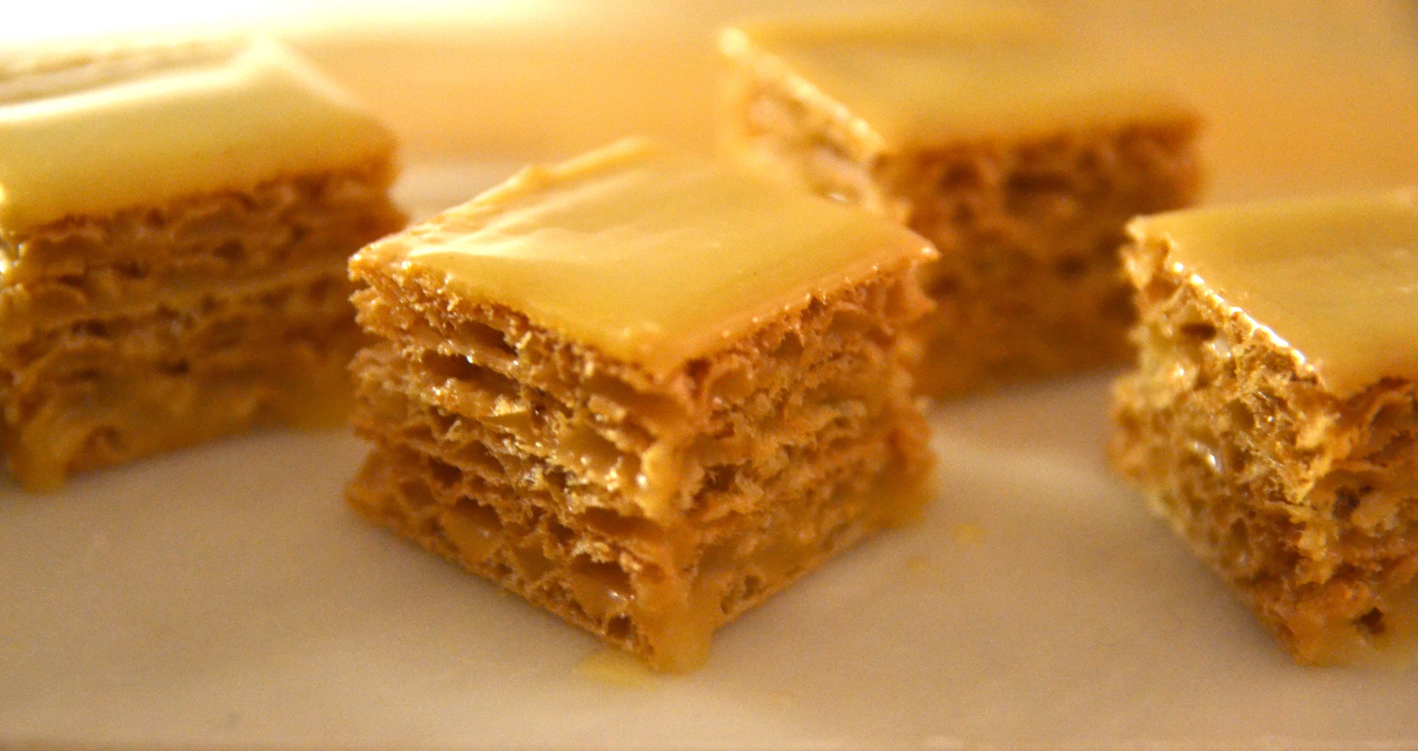 Oblande - caramel desert from serbia